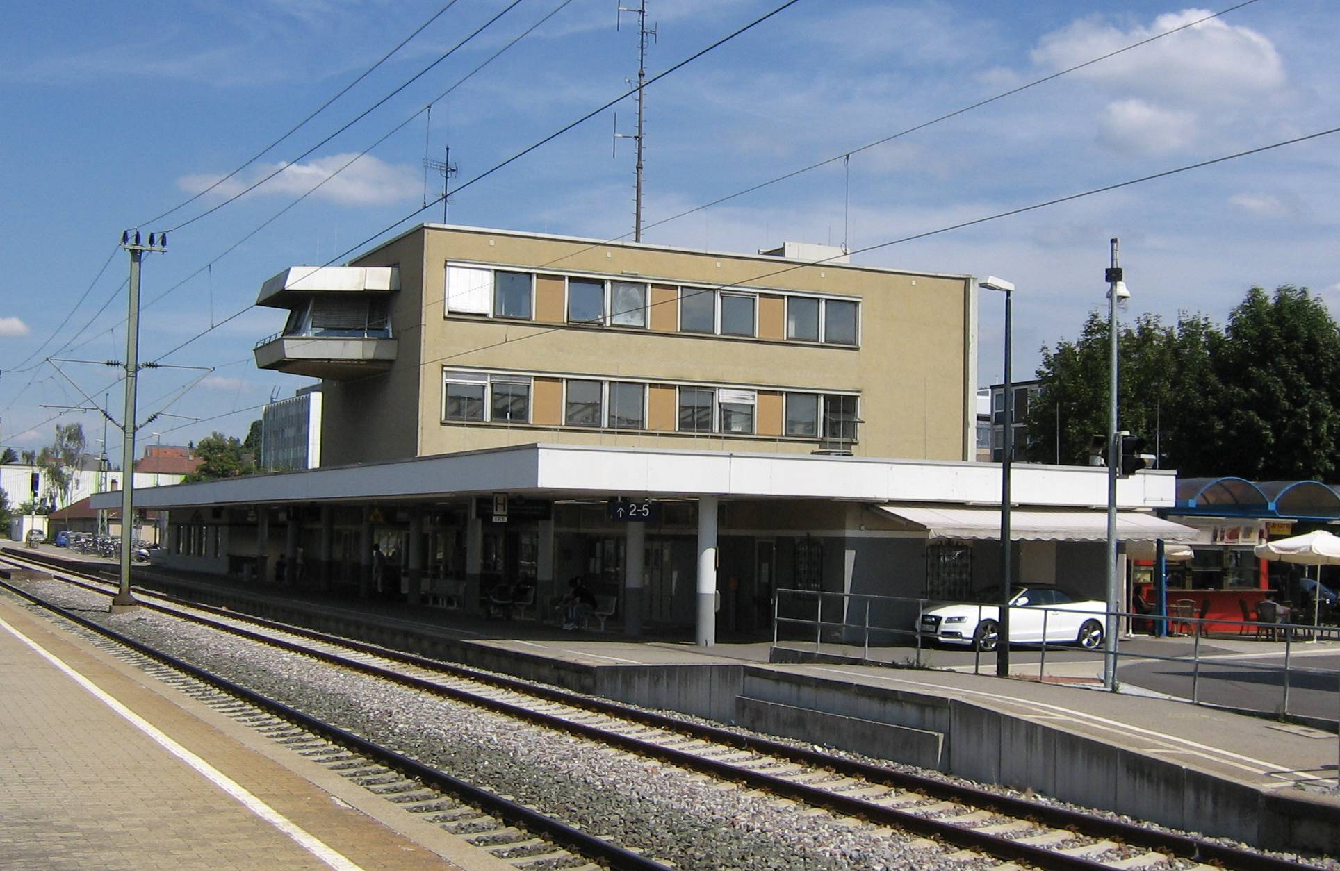 Böblingen Bahnhof